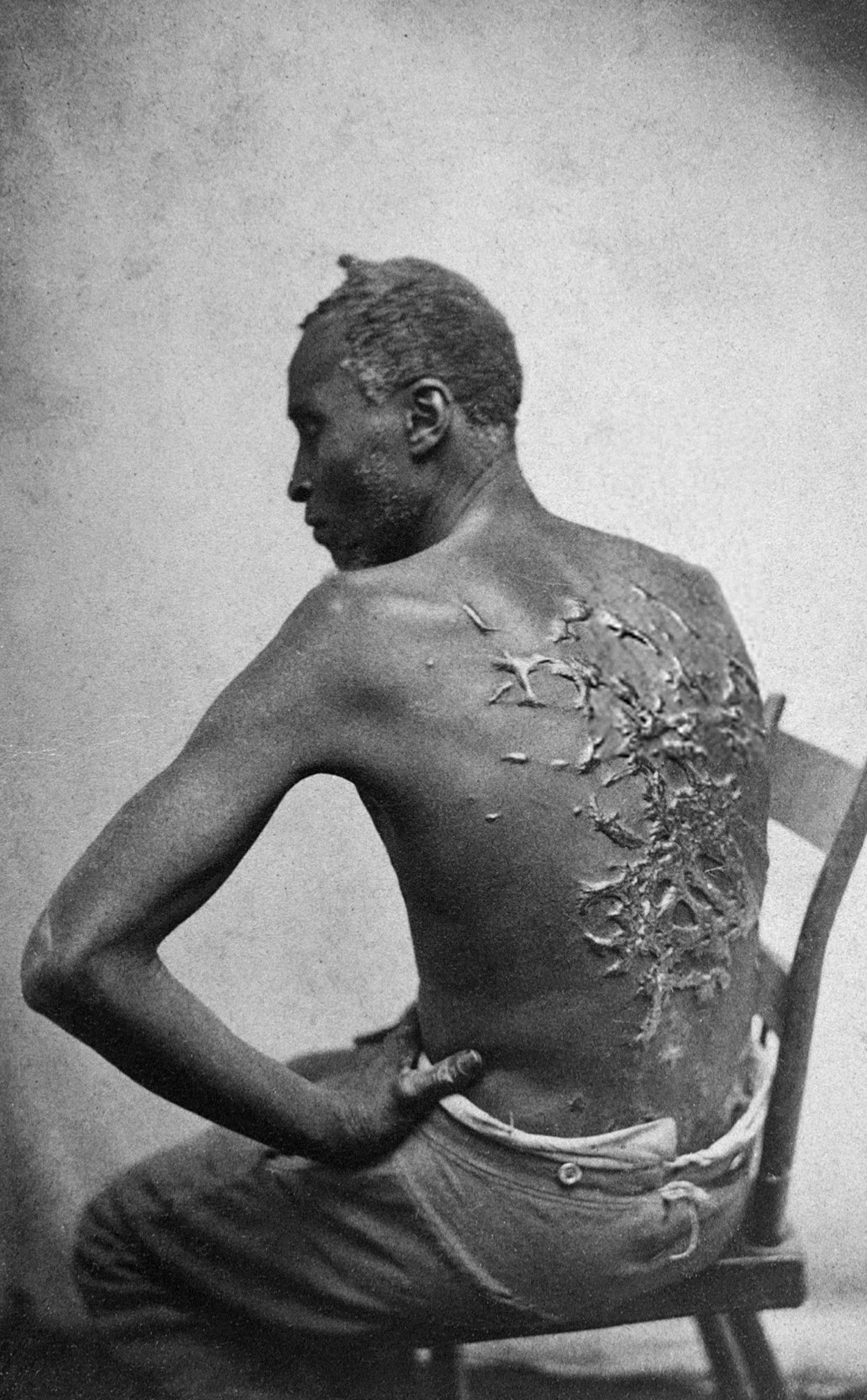 Scars of a whipped Mississippi slave, photo taken April 2, 1863, Baton Rouge, Louisiana, USA. Original caption: "Overseer Artayou Carrier whipped me. I was two months in bed sore from the whipping. My master come after I was whipped; he discharged the overseer. The very words of poor Peter, taken as he sat for his picture."